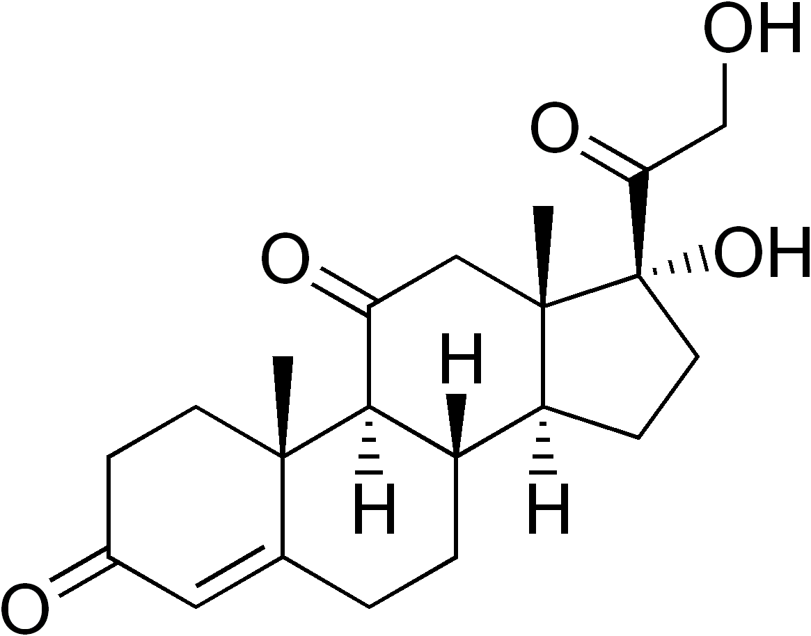 chemical structure of cortisone